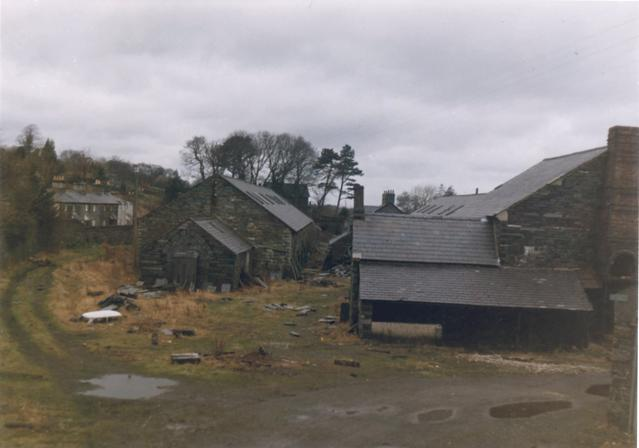 Penrhyn Quarry workshops The building at Coed y Parc at the former meeting point between the "main line" of the 2' gauge railway to Porth Penrhyn and the internal quarry railway system.. By the time this picture was taken in 1973 the railway had long since been lifted however the buildings remained. Some of the locomotives and rolling stock has however survived including Linda and 301027 both of which can still be seen in operation on the Ffestiniog Railway.